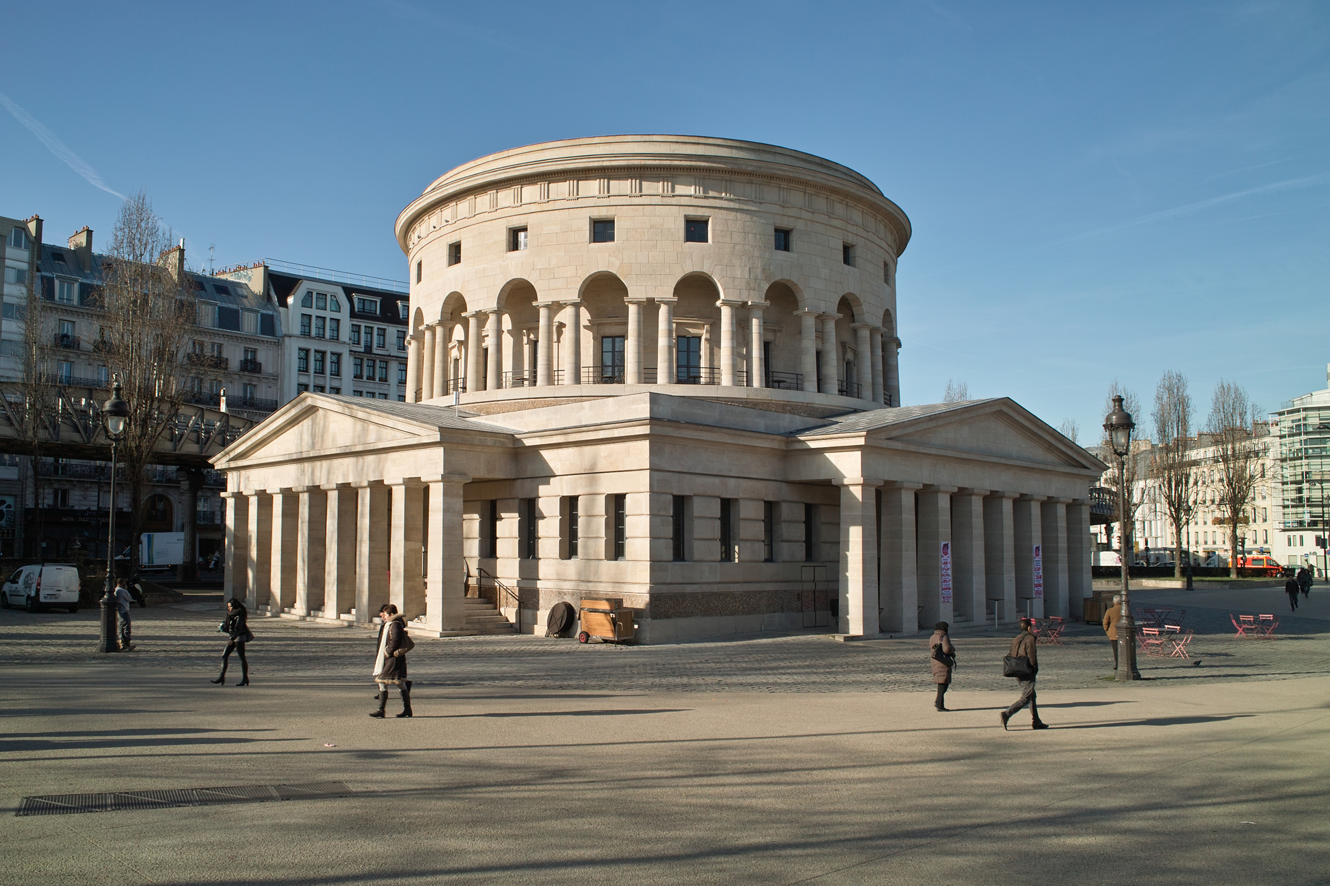 Rotonde de la Villette, Paris 19e, France